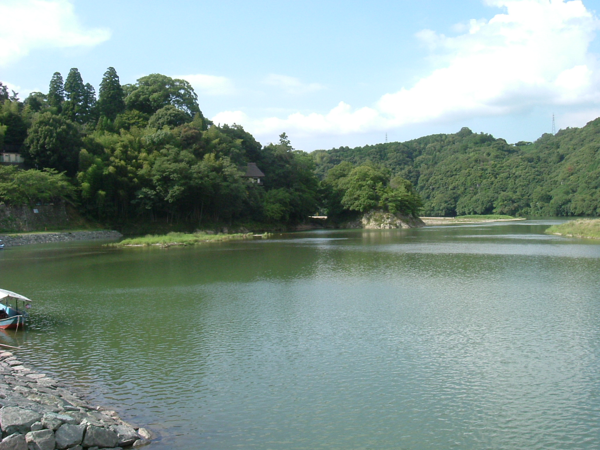 Garyunohuchi(Hijikawa river)